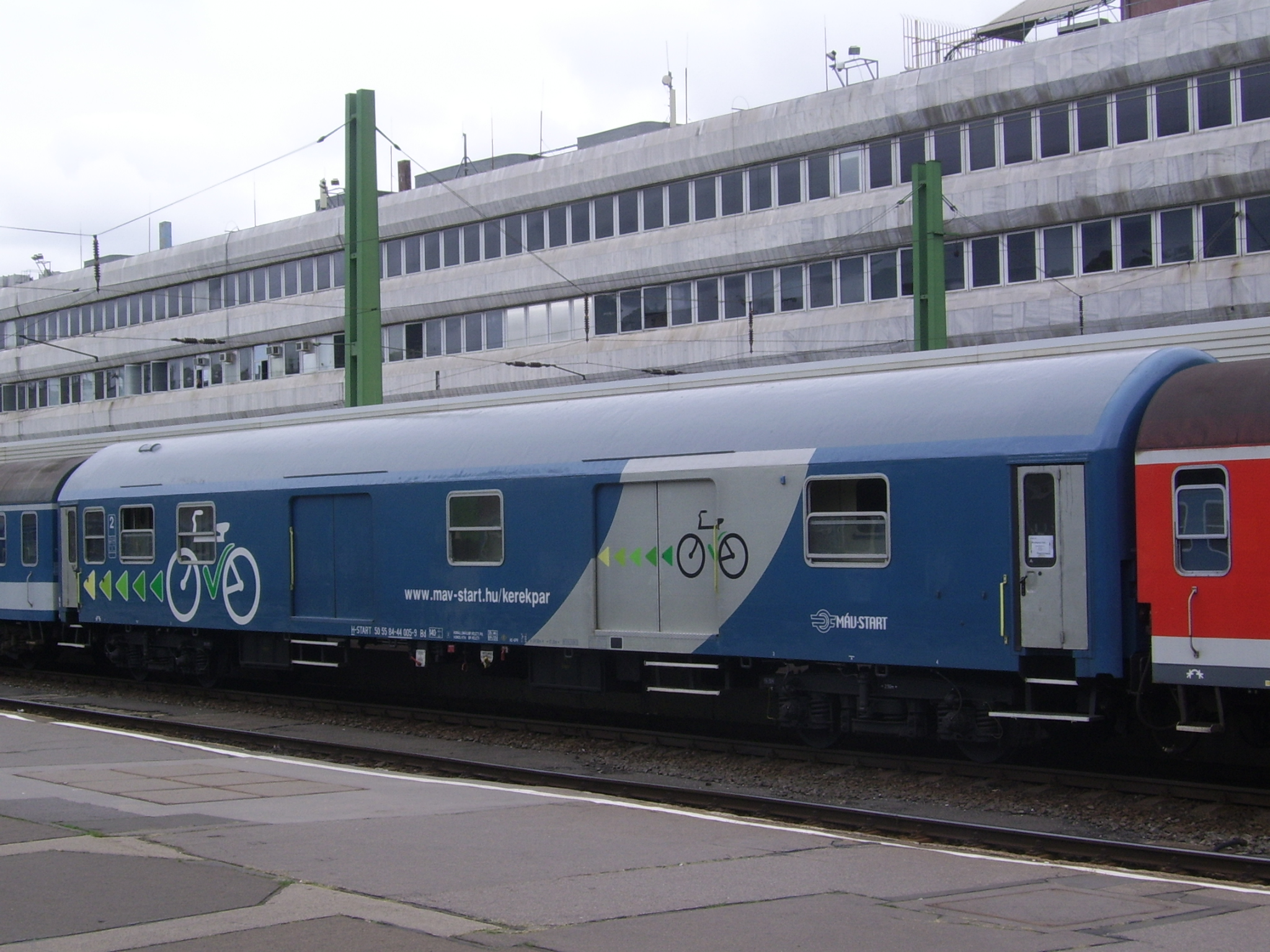 Type Bd long distance bicycle transport coach of the MÁV-Start.